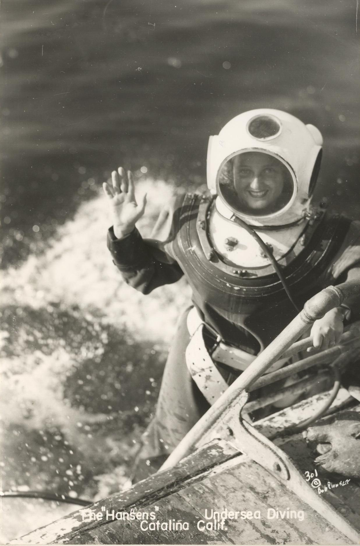 female deepsea diver. Six Word Story: Marion surprised us with hidden talents.